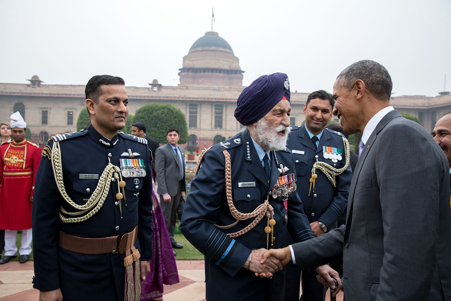 President Obama greets Arjan Singh, Marshal of the Indian Air Force, at the At Home Reception on the Central Lawn of Mughal Garden in New Delhi.